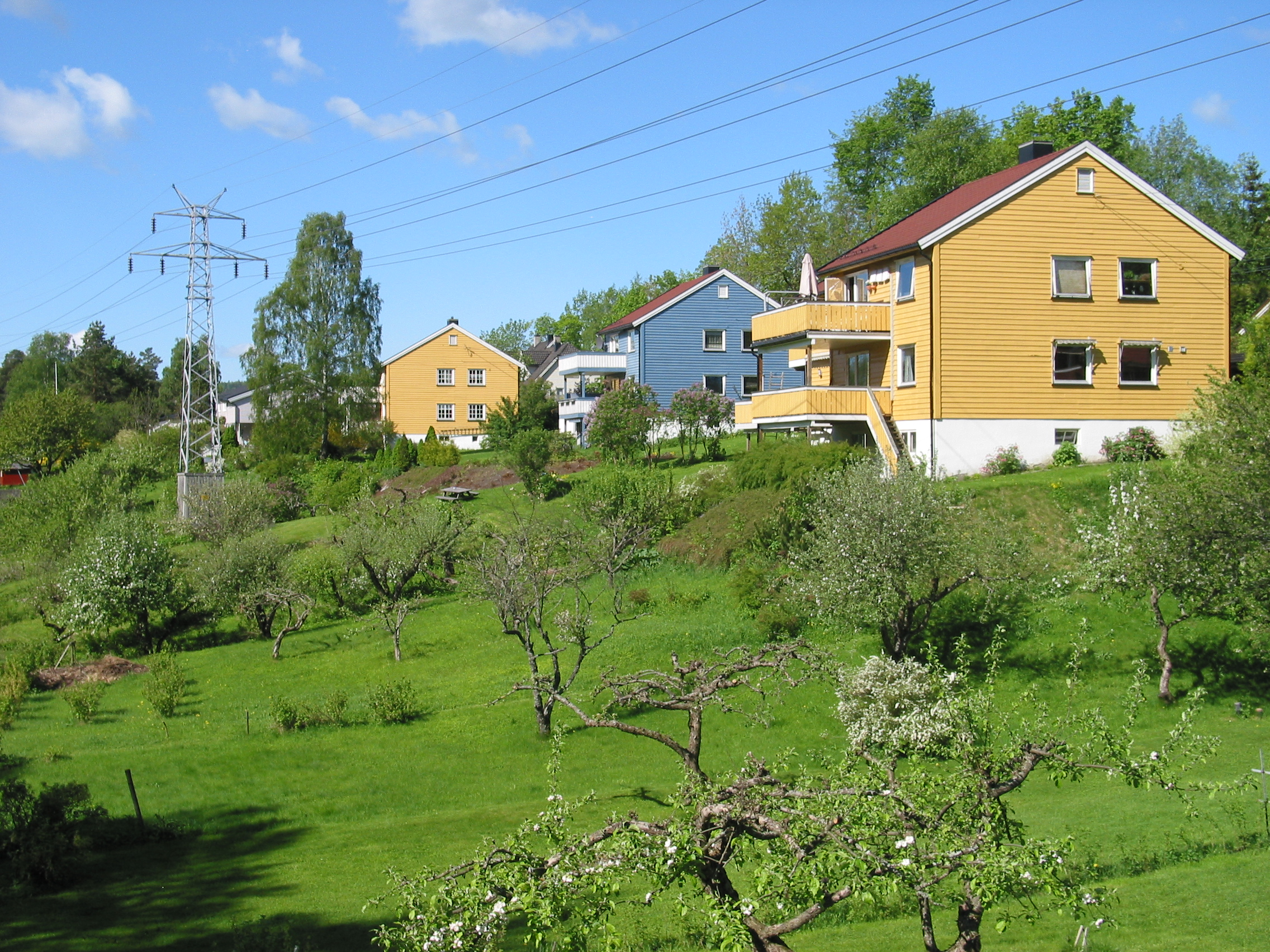 Skytteråsen, facing southwest.